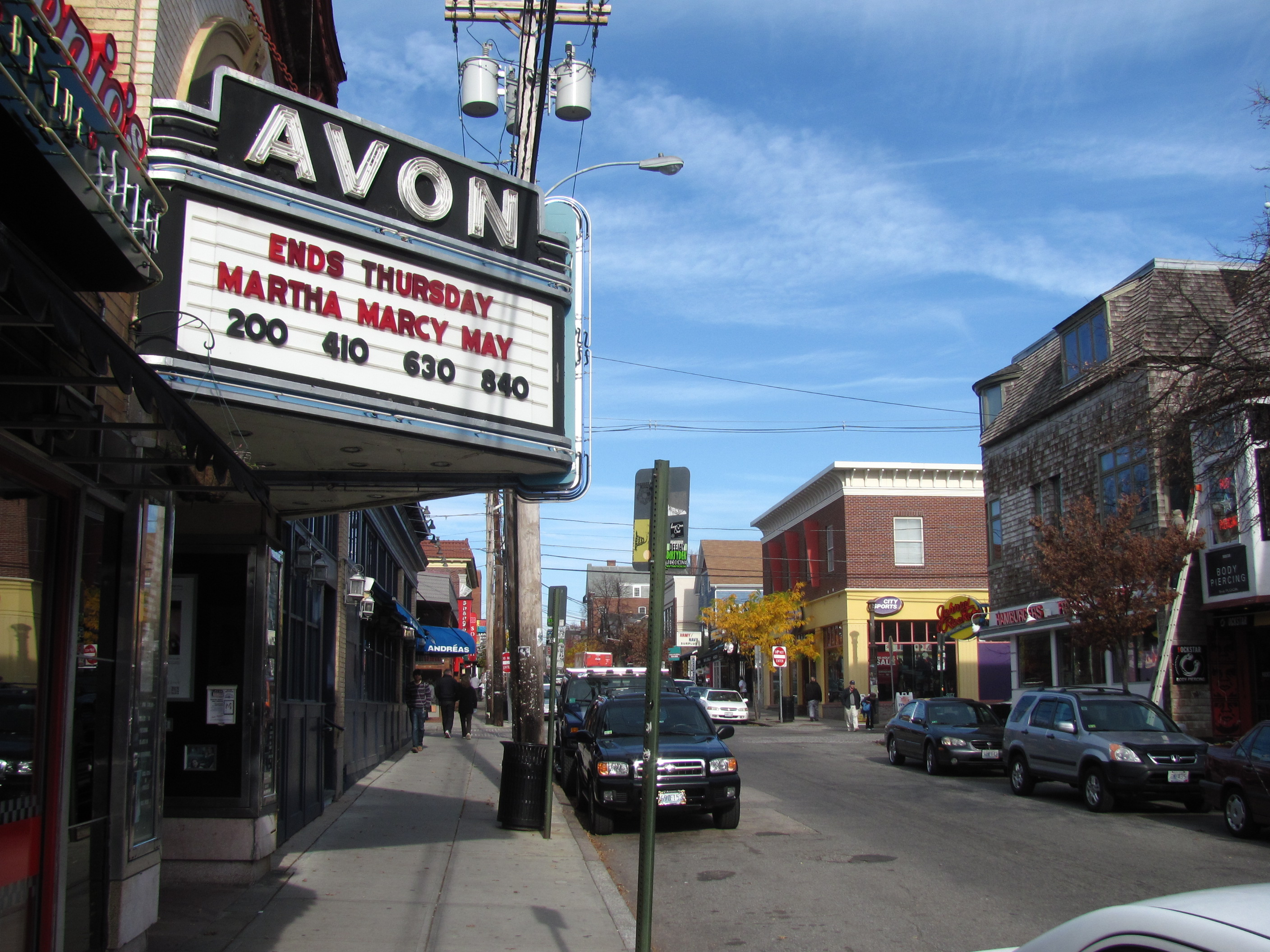 Avon Cinema, Providence Rhode Island